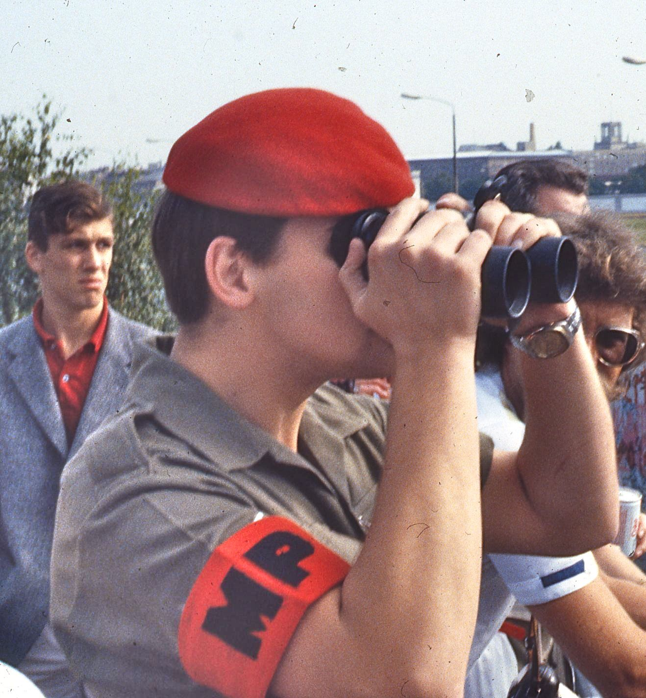 British military police officer looks across Berlin Wall using field glasses, with two civilians, 1984 Other information Photo by George Garrigues.